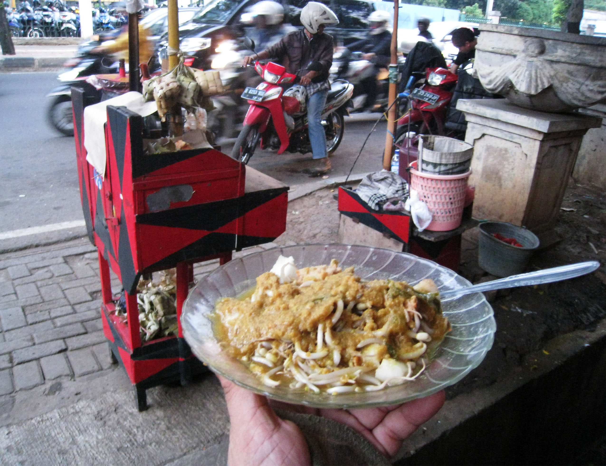 Tauge goreng, or fried beansprout with ketupat rice cake served in oncom-based sauce. A street food in Jakarta, Indonesia.